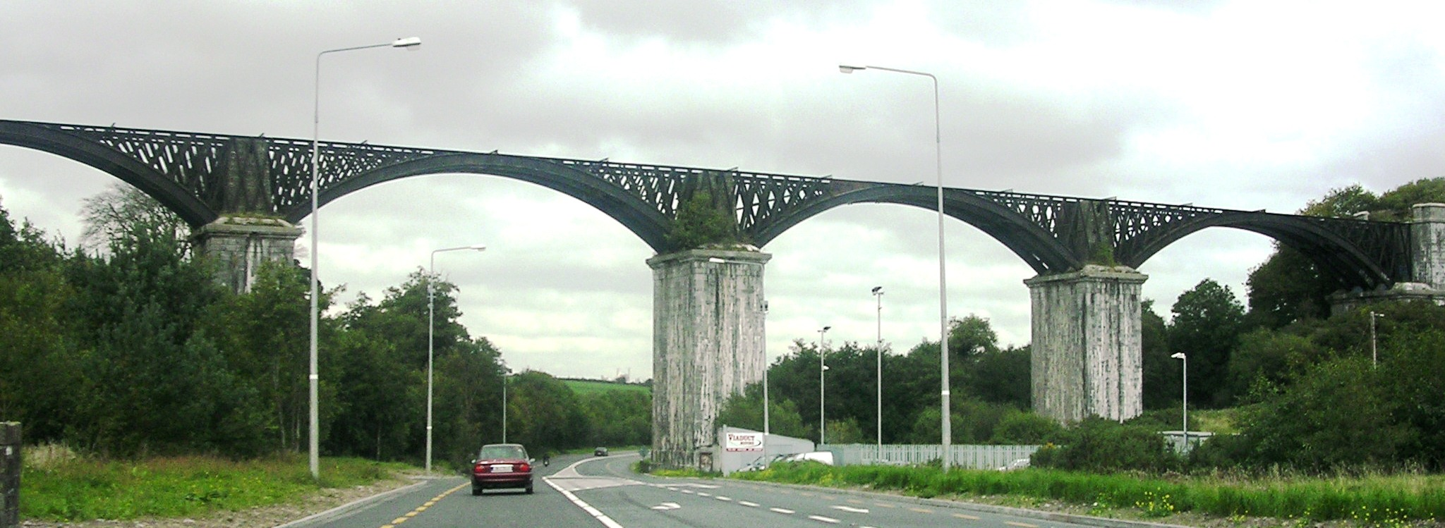 Chetwynd Viaduct southeast of Cork Summary Chetwynd Viaduct southeast of Cork